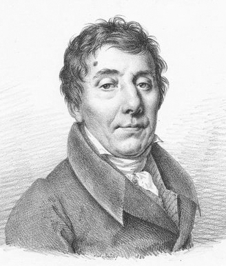 French counter-revolutionary philosopher Louis de Bonald (1754-1840) by Julien Léopold Boilly (1796-1874).